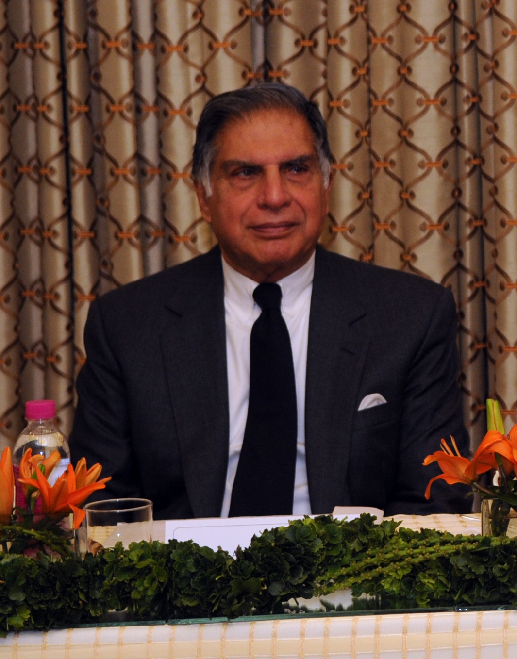 = Ratan Tata, Charmain of the Tata Group